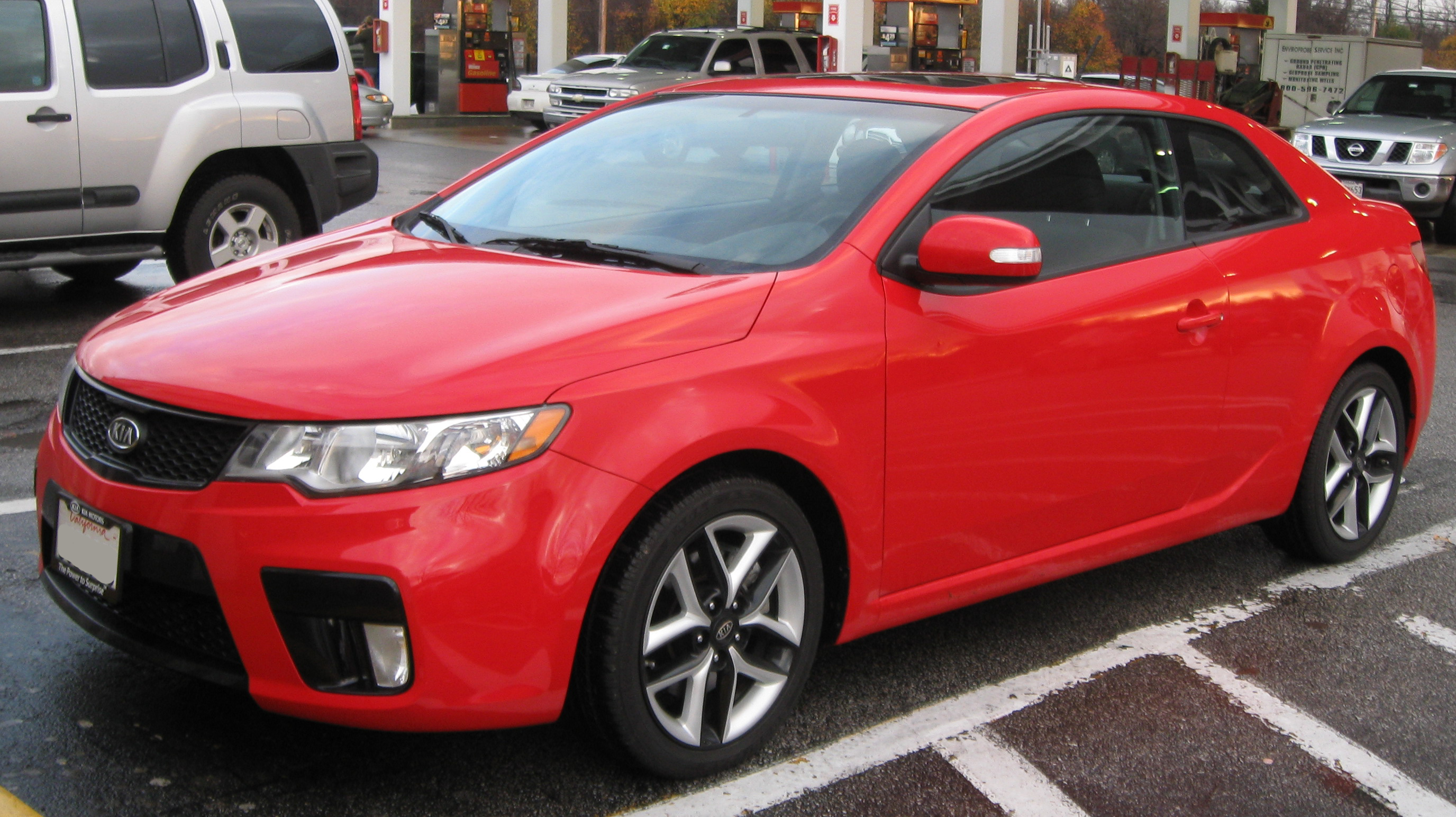 2010 Kia Forte Koup photographed in Upper Marlboro, Maryland, USA.